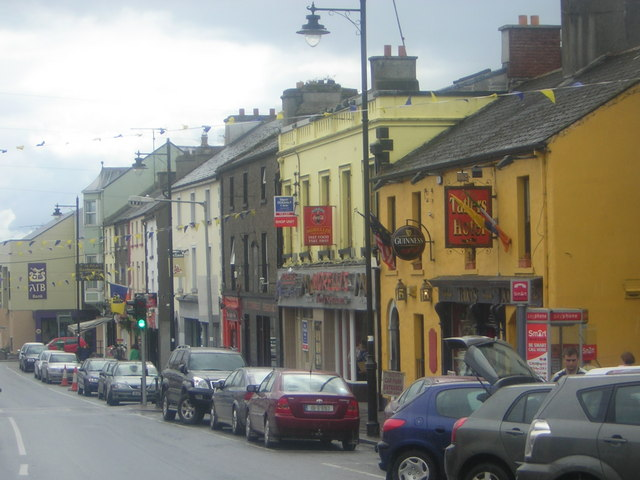 Roscommon: Main Street